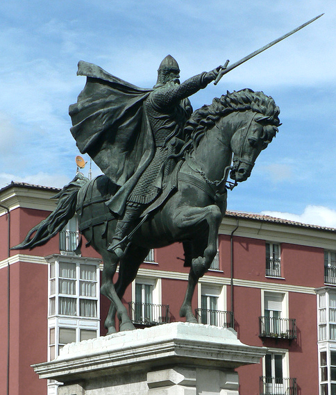 The Monument to the Cid in Burgos (Castile and León, Spain), unveiled in 1955. Bronze equestrian statue was sculpted by Juan Cristóbal González Quesada (1897–1961).